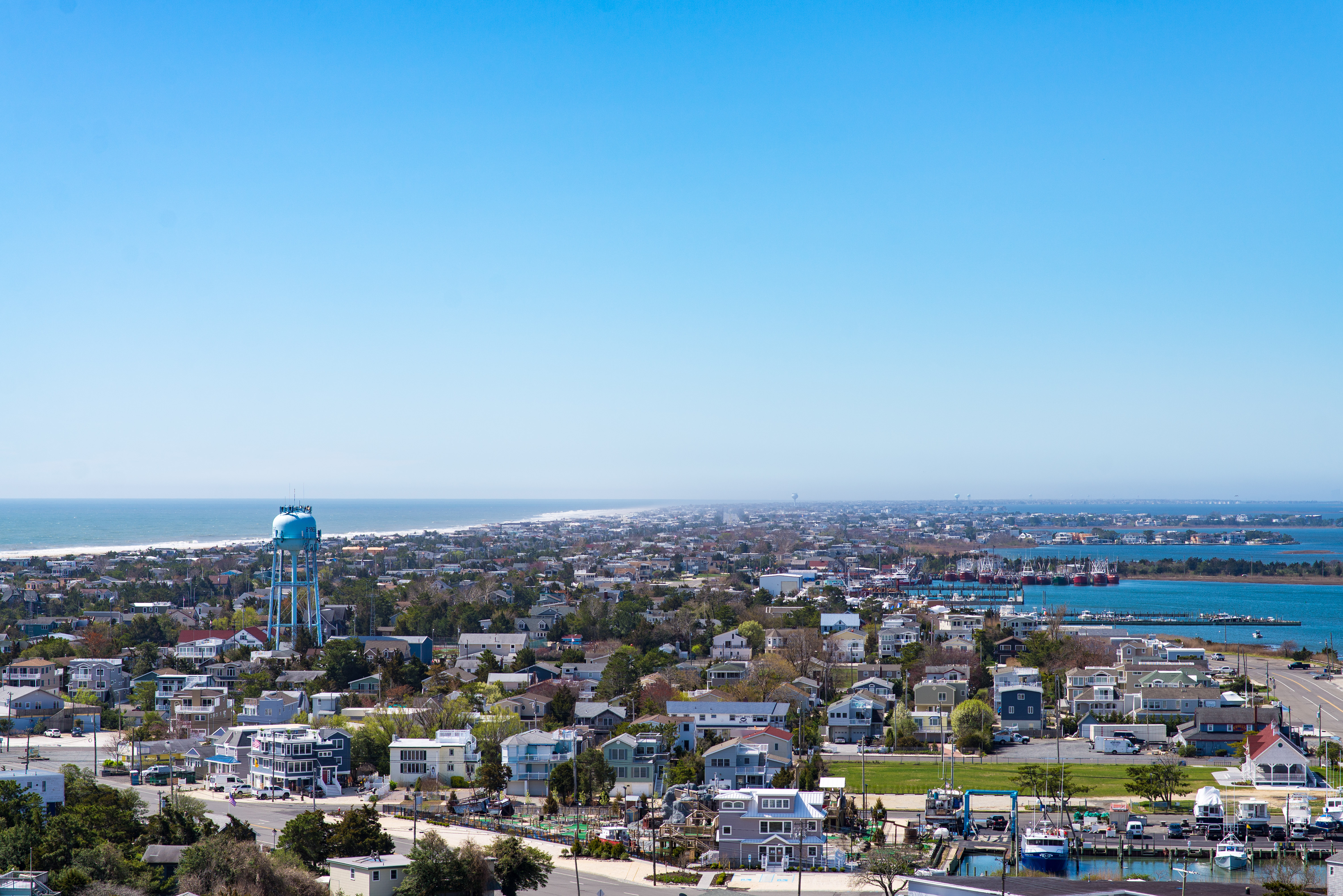 Looking south over the neighborhood of Barnegat Light and farther down Long Beach Island